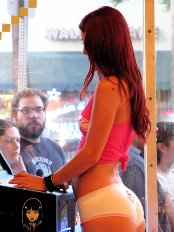 Woman in crop top and shorts standing in front of a video game. People looking through the window.